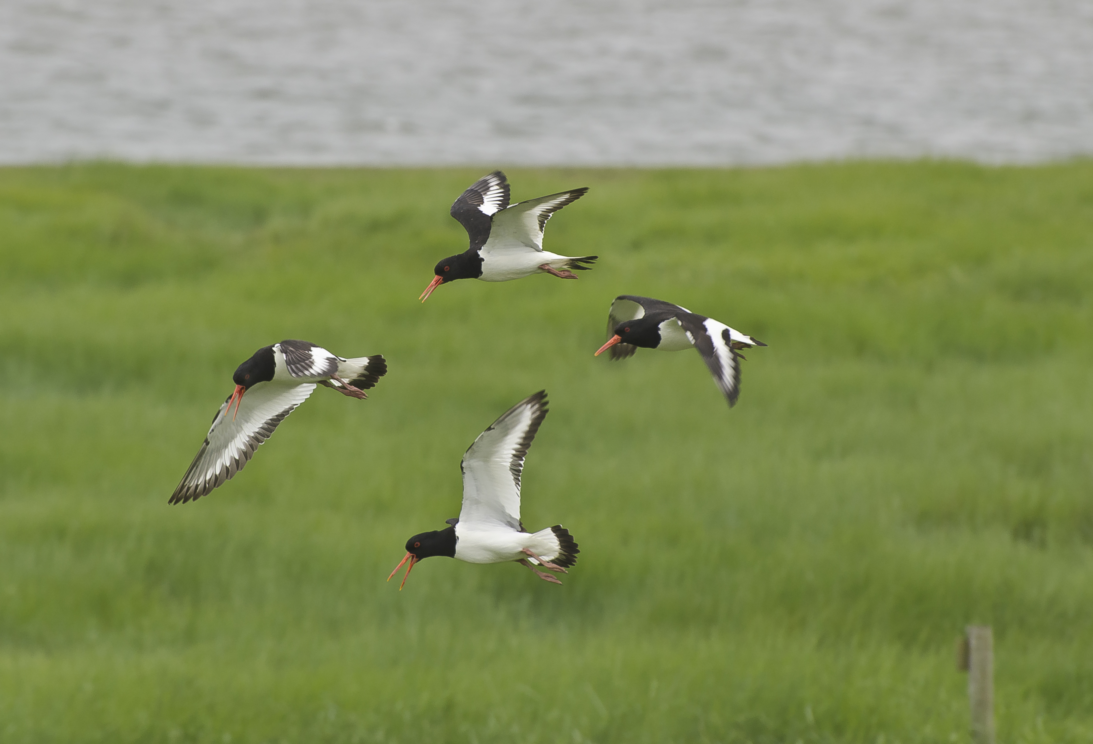 Eurasian oystercatcher (Haematopus ostralegus), Hamburger Hallig, North Frisia, Germany